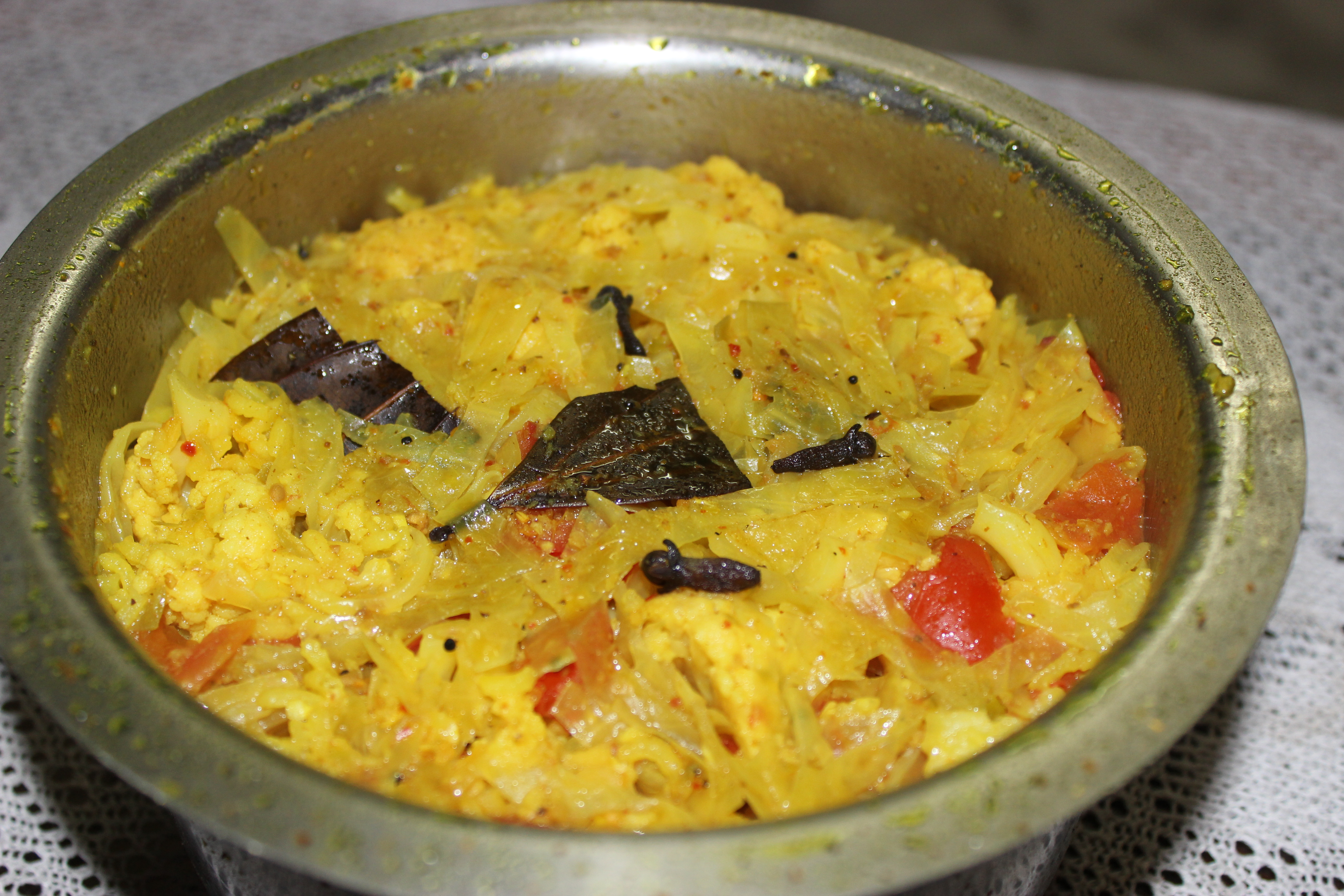 Masala Khichdi in Gujarati Style